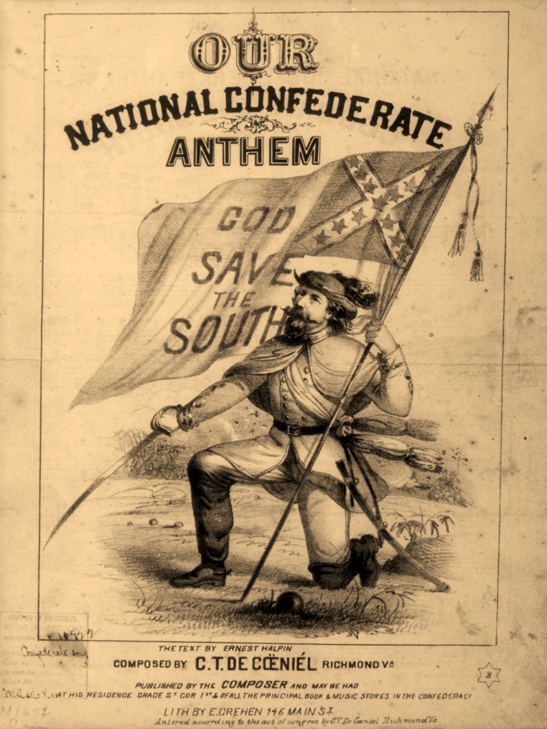 "God Save the South" sheet music cover. A rare music cover illustration, published by the composer, C. T. De Cœniél, in Richmond, Virginia. This edition features a Confederate soldier who kneels on one knee holding a large flag with the words, "God save the South." A cavalryman, he wears high boots and a plumed hat and holds a drawn sword in his right hand. A cannonball lies in the grass before him. In the distance soldiers fire a cannon toward an advancing troop of infantry. Few illustrated music sheets were issued in the South either before or during the war, as the lithography industry was in a relatively undeveloped state there. Lithograph by Ernest Crehen, on wove paper; 31 x 19.5 cm. (image).